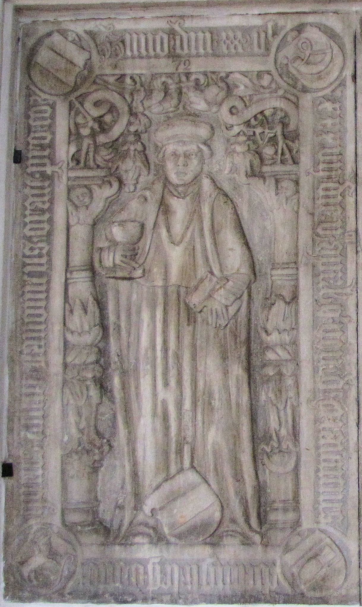 Gravestone in Lübeck Cathedral: Canon Moritz Ebeling (+ April 5, 1537) Corpus: LÜDO 288